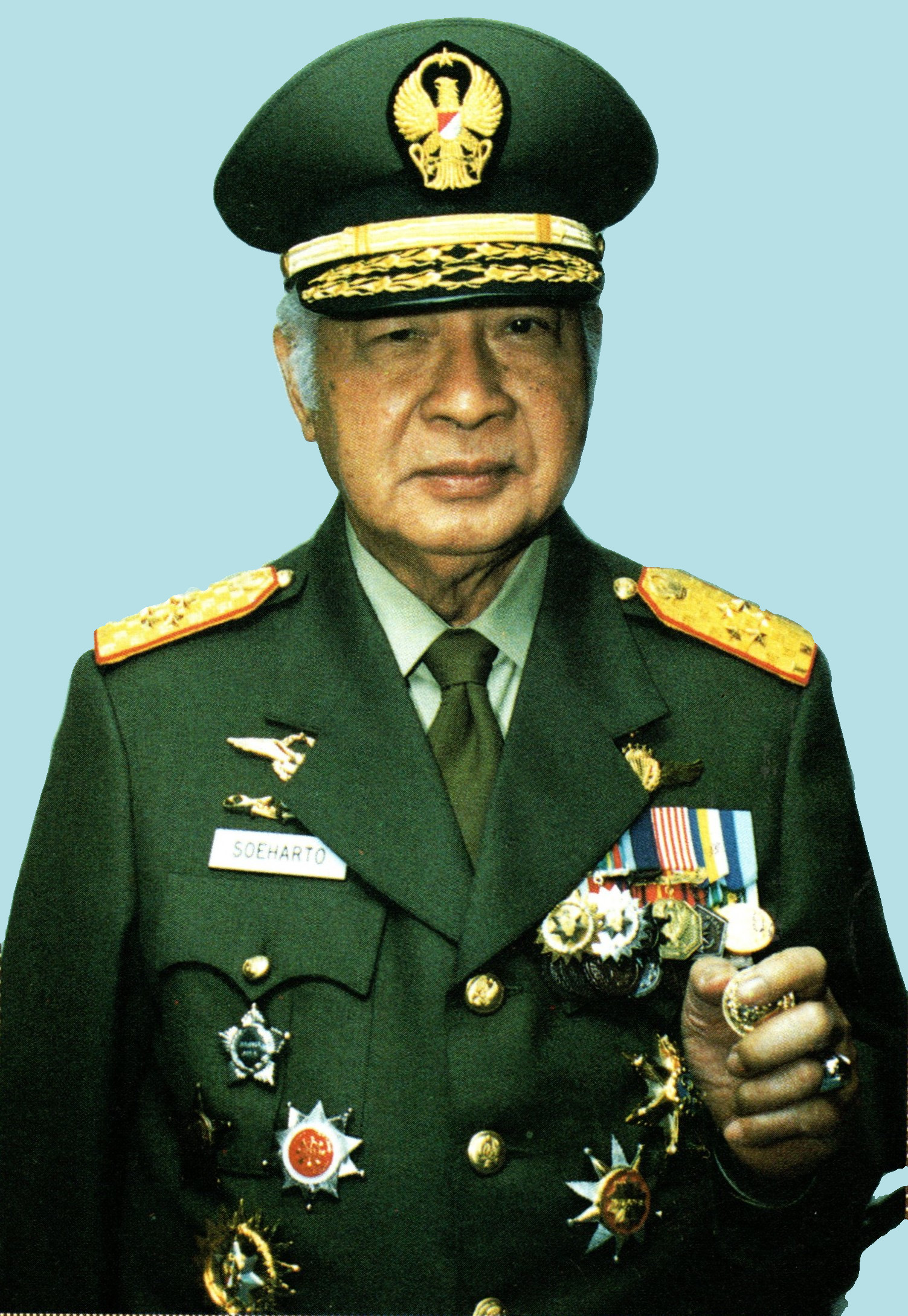 President Suharto with full military uniform on 1997. Note his five-star rank, which is granted on the 50th anniversary of Indonesian National Armed Forces (1997).